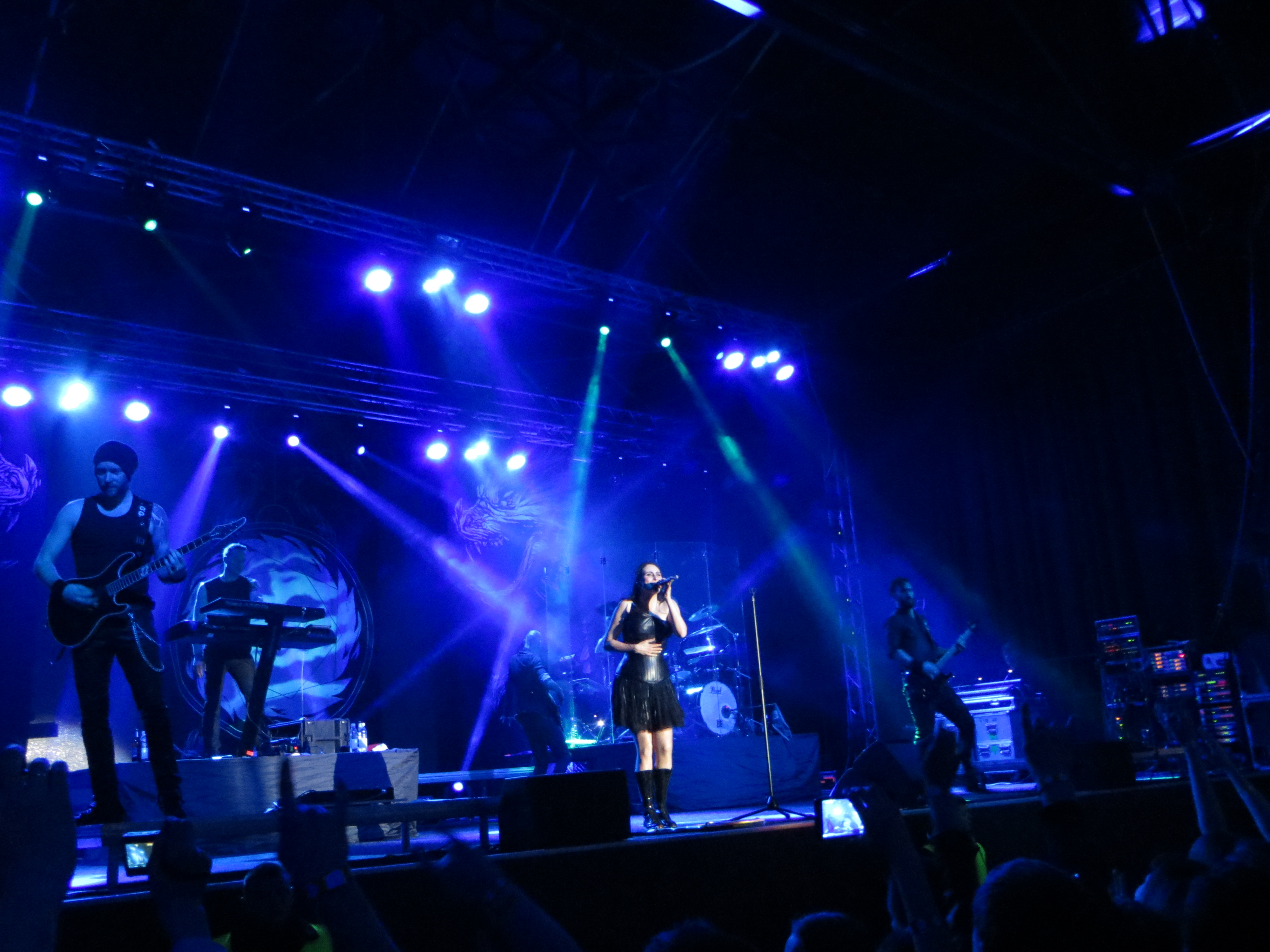 Within Temptation in Kyiv, March 31th, 2015